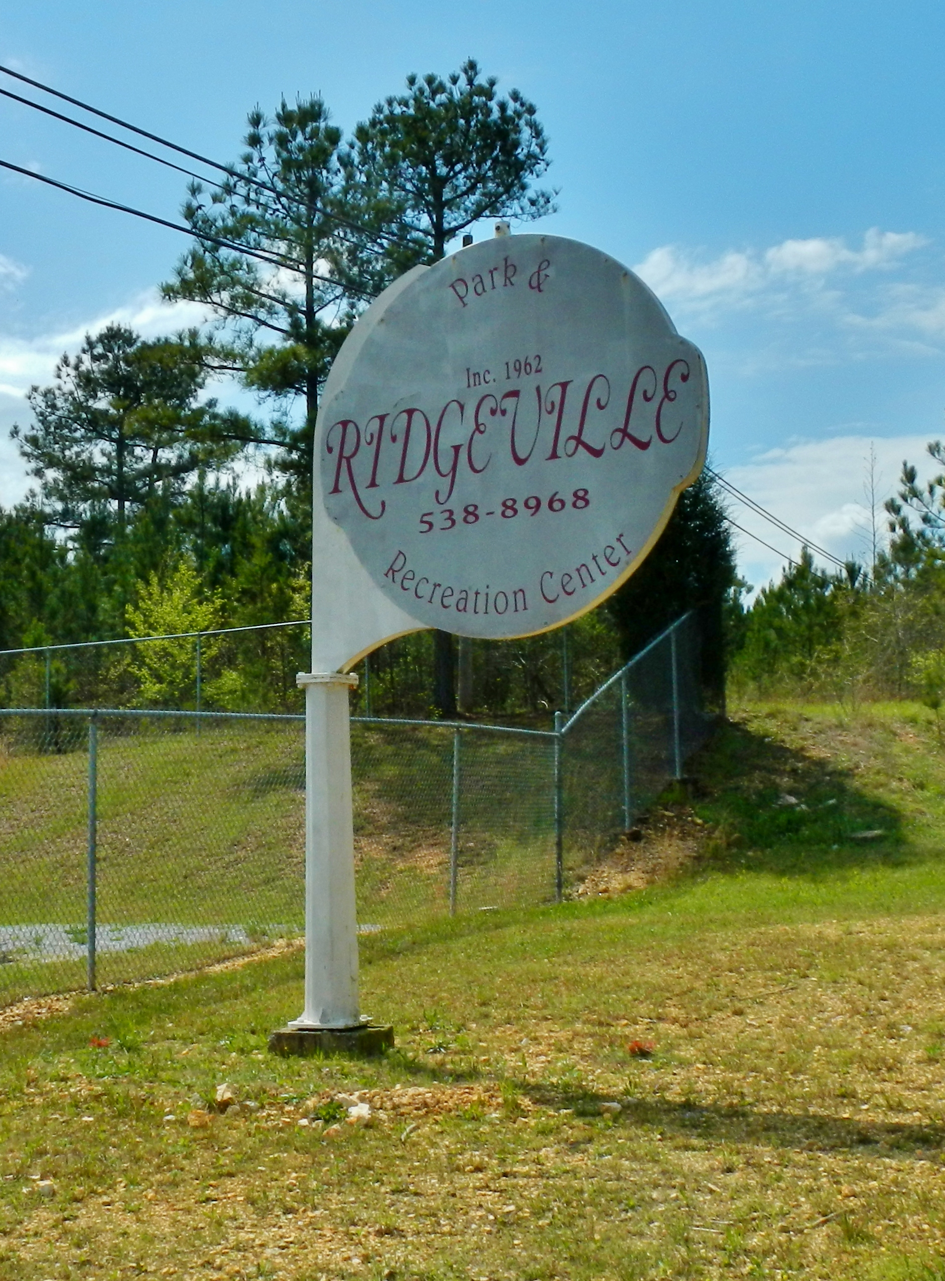 This is a photo of Ridgeville, Alabama.